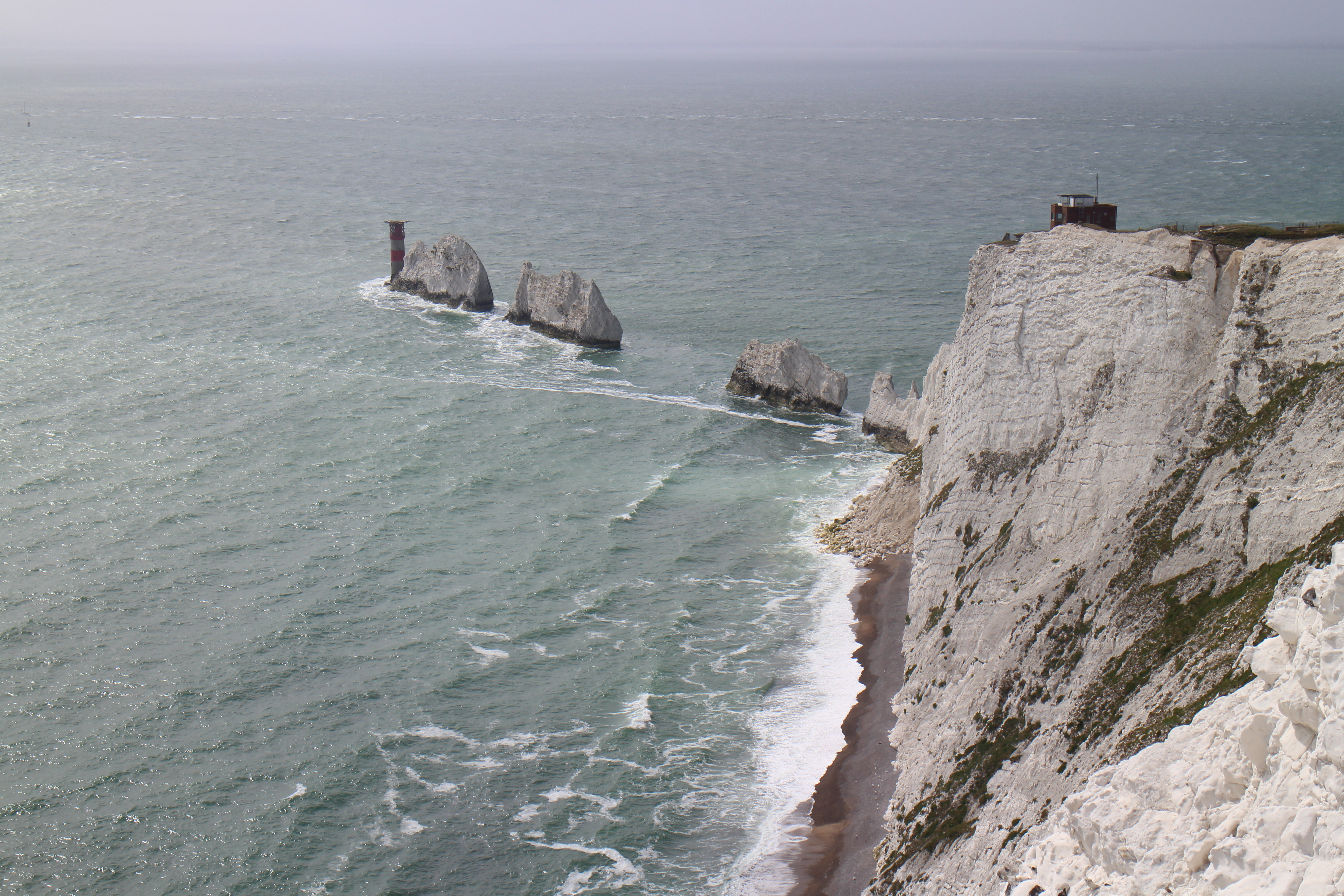 The Needles, Isle of Wight